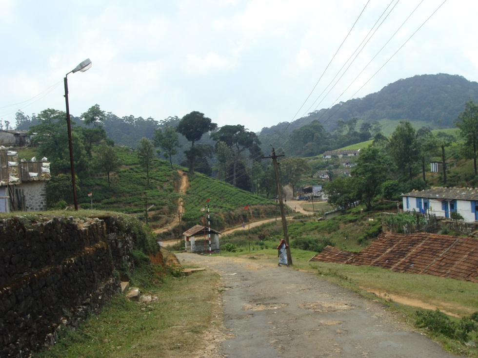 colony of tea estate employees in manjolai